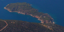 Egglezinisi island of Euboea